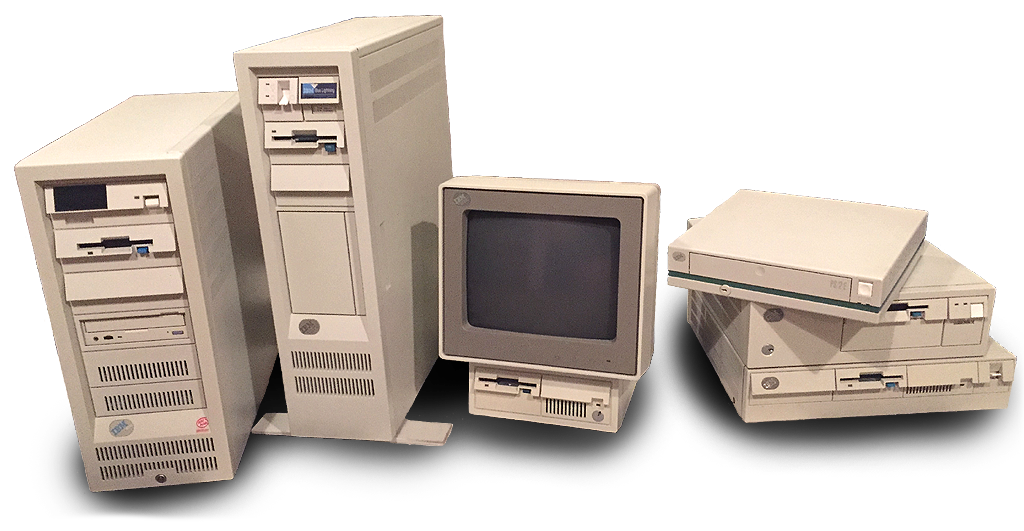 Shown here are the most common models of Personal System/2 computers released.